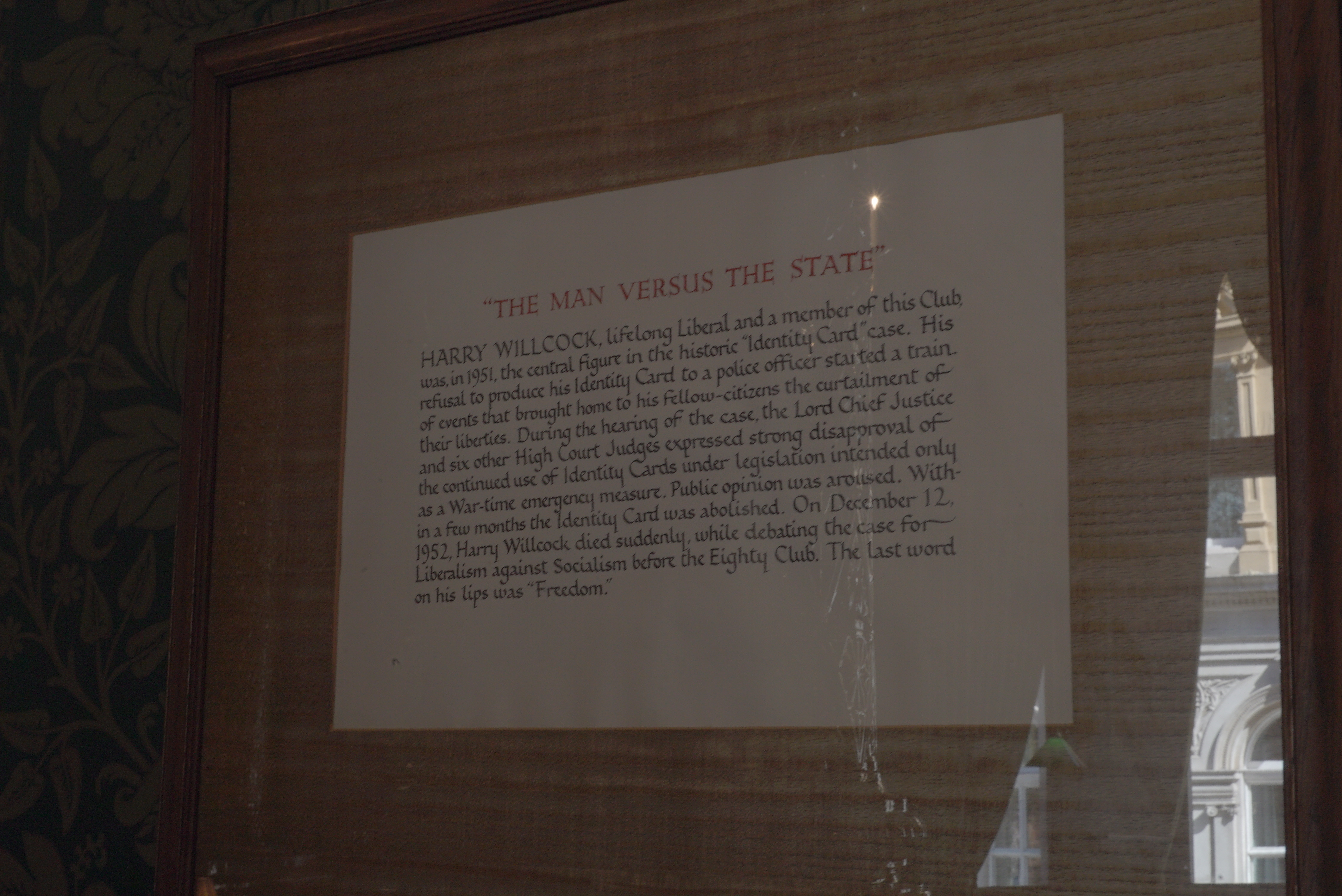 A memorial to Harry Willcock commemorating his part in the Identity Card case of 1951